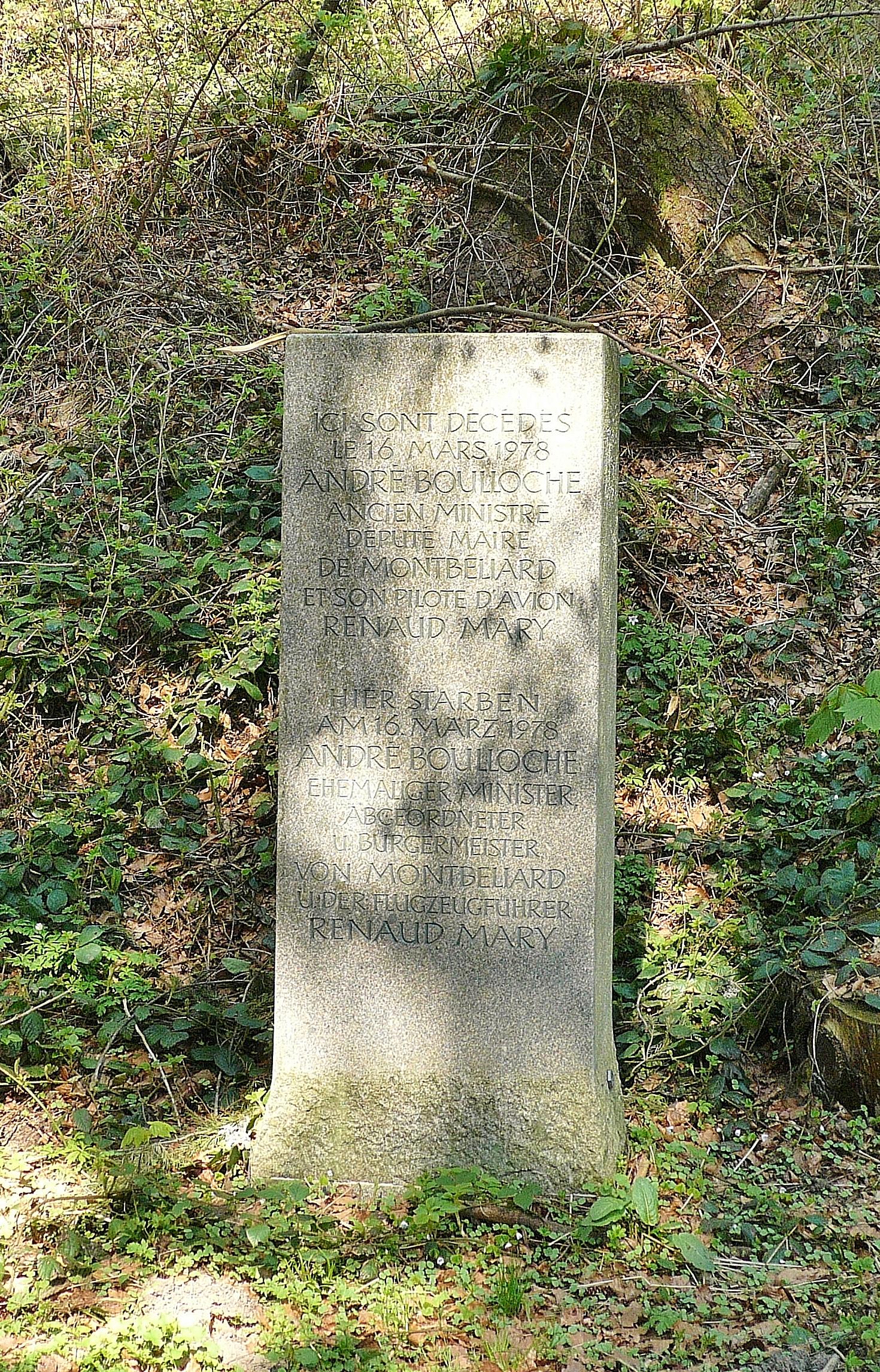 The place where the Andre Boulloche died in an airplane accident on the south-western slope of mount Blauen in the Black Forest, Germany.